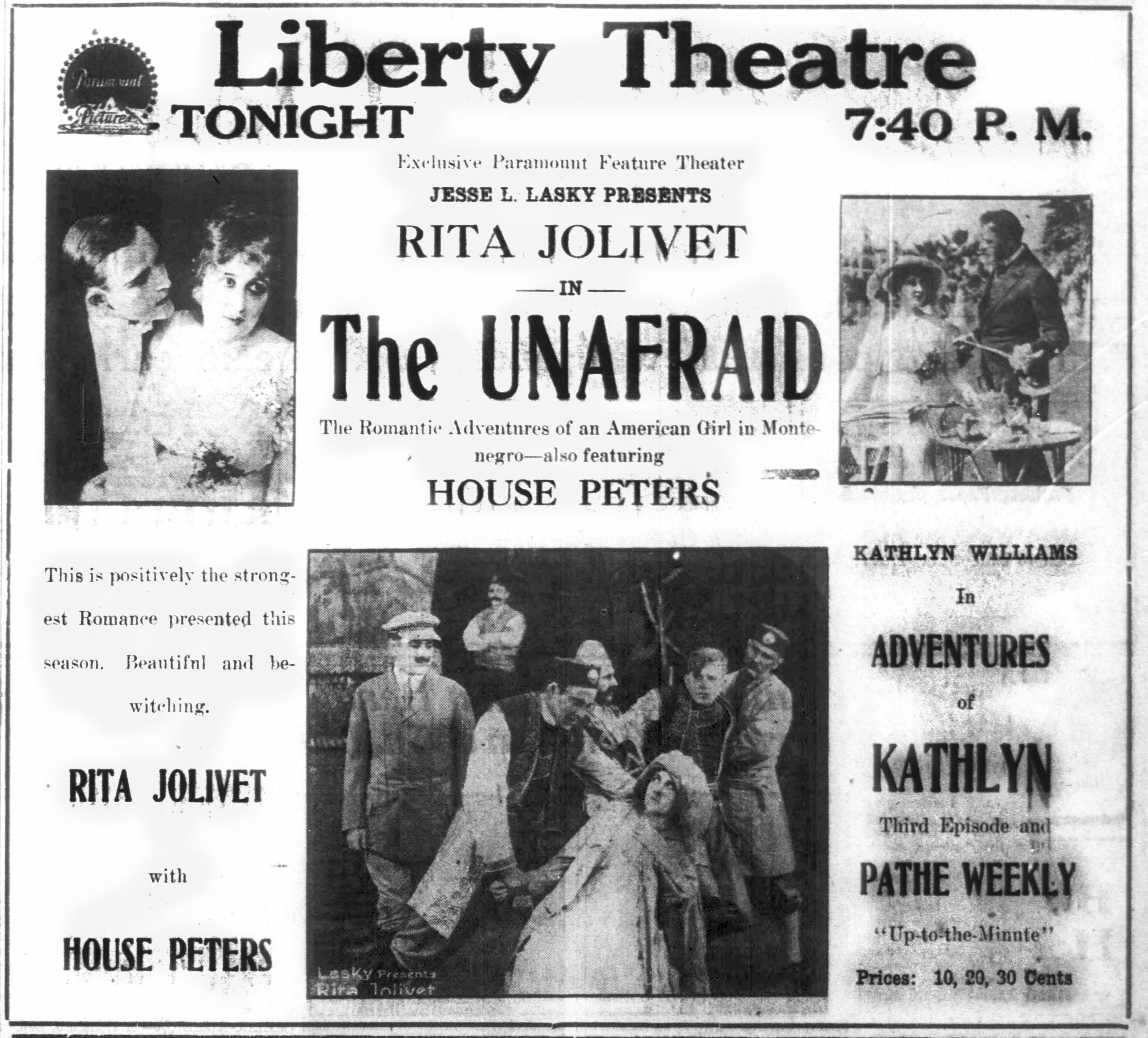 The Unafraid is a 1915 drama film directed by Cecil B. DeMille. This is a newspaper advert for the film.